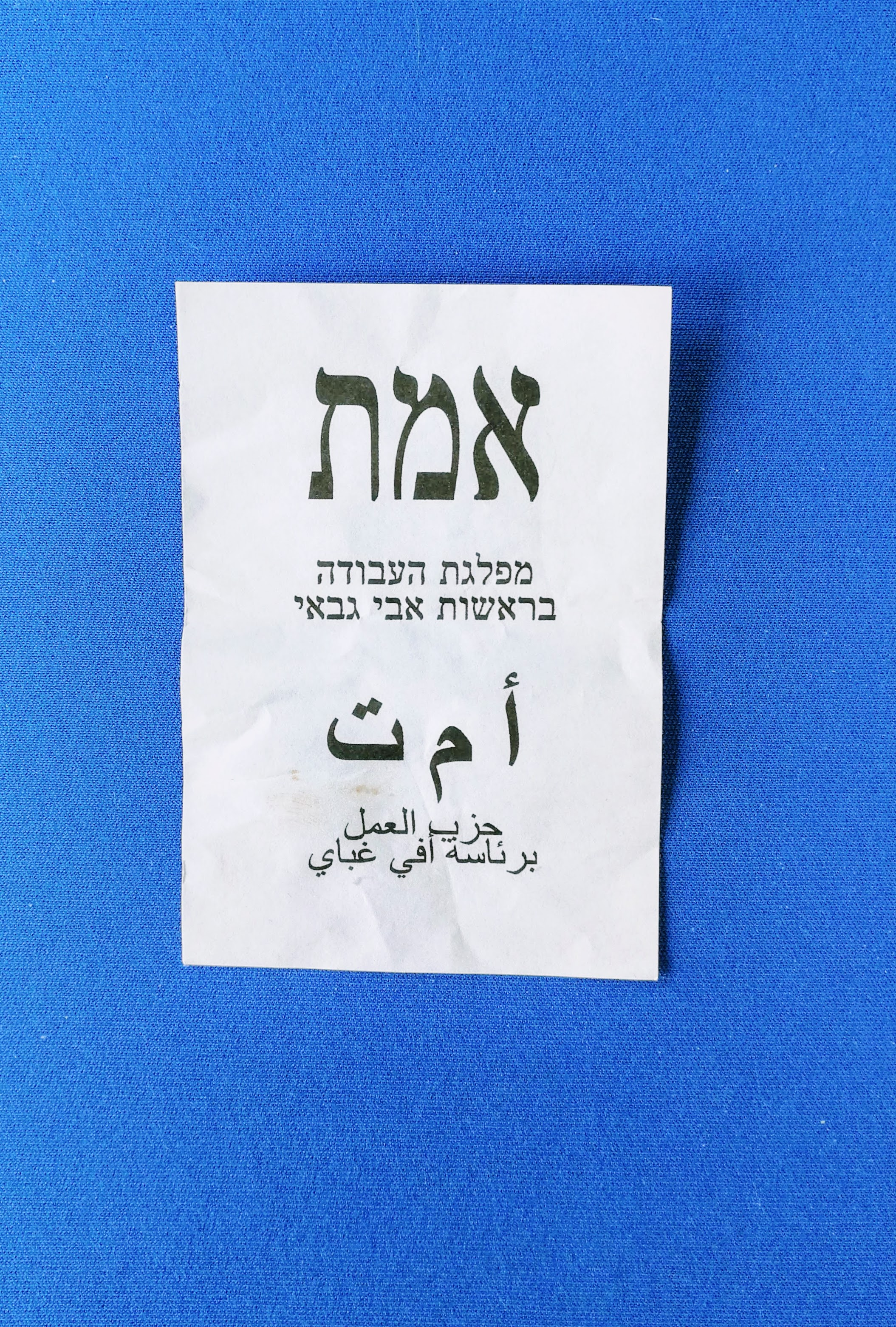 Israel Labor Party 2019 elections ballot